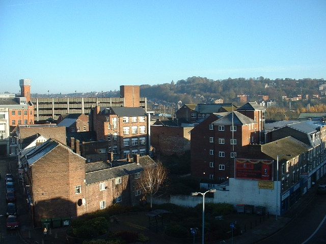 Luton Town Centre Taken from the roof of the Arndale Centre, looking northeast